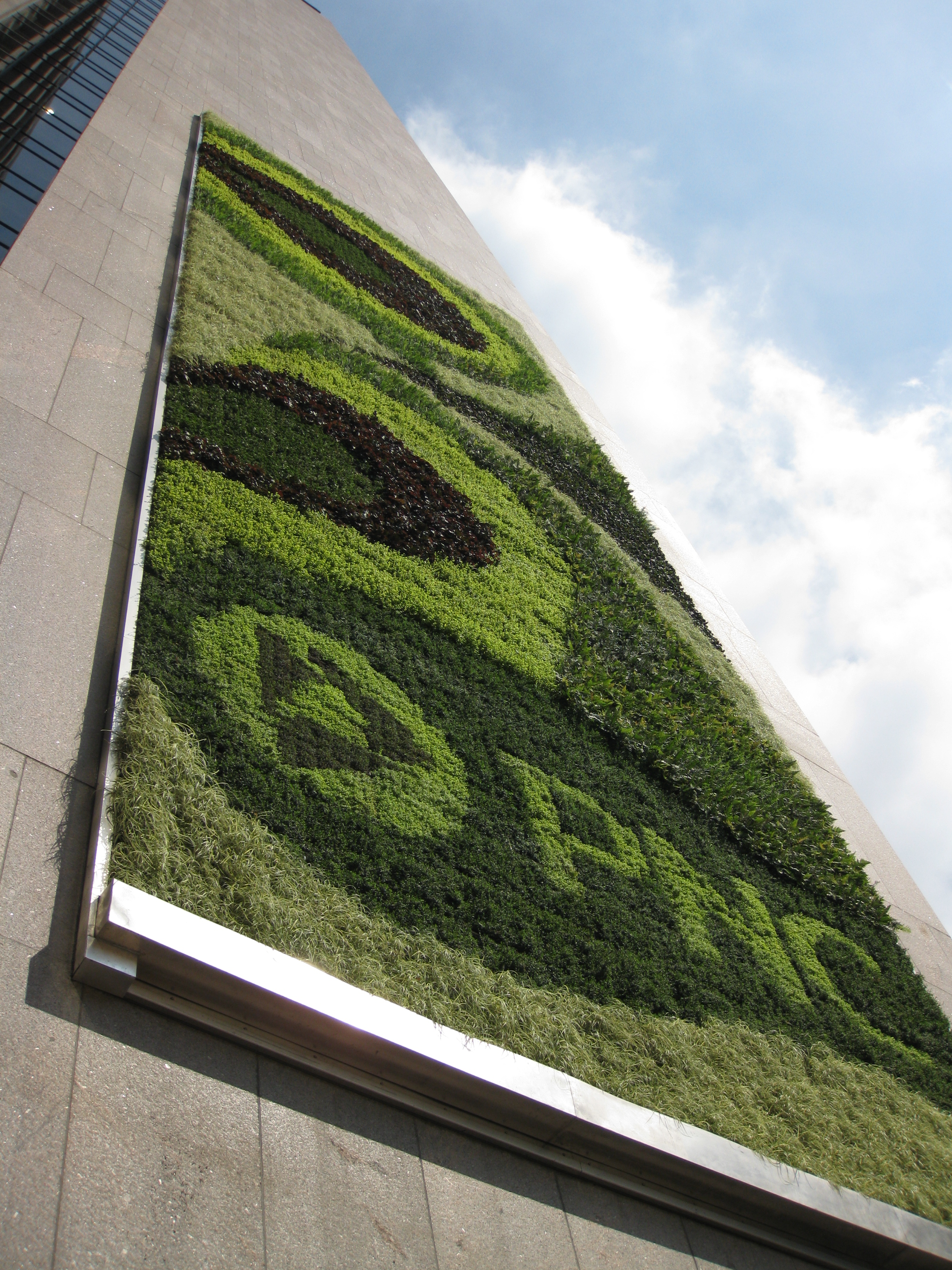 Largest Vertical Garden in North America